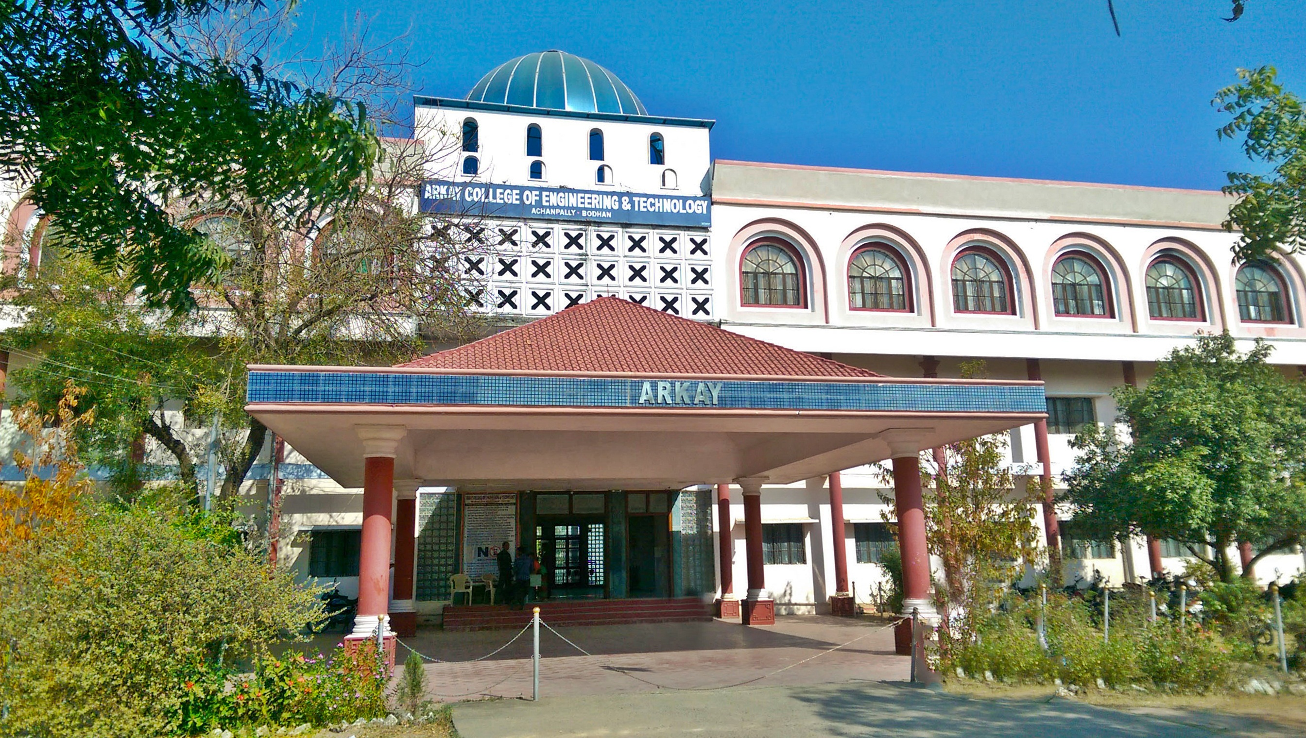 Arkay College of Engineering & Technology, Bodhan Town, Nizamabad.